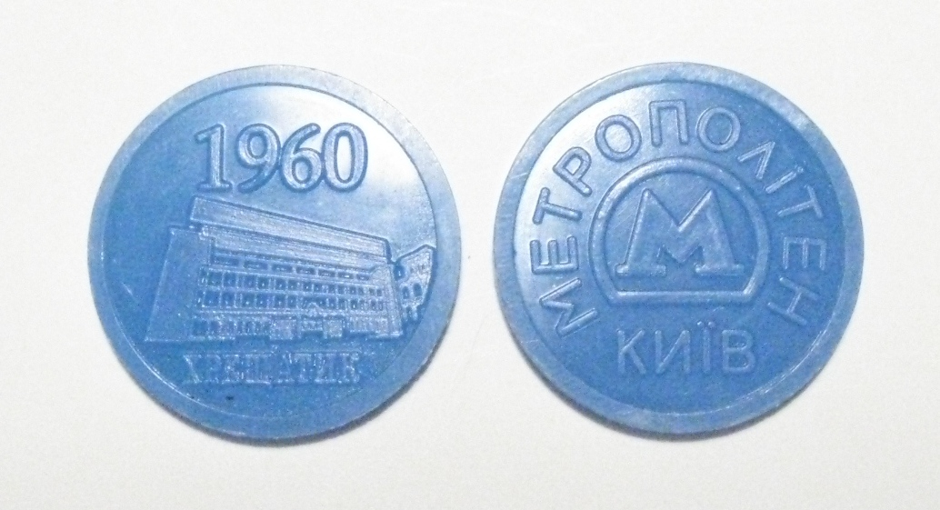 Jubilee medal with the image of the subway station "Khreschatyk", made the day of the 50th anniversary of the launch of Metro in Kiev, November 6, 1960.